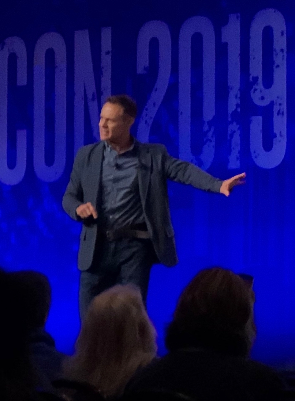 CrimeCon 2019 New Orleans, Hilton Riverside